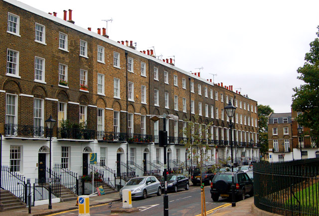 Claremont square, Islington (4) Looking southwest at the south side of Claremont Square, Islington. The square was developed in the 1820s around the Upper Pond of the New River Company. The New River is a man-made water channel which carried drinking water for 20 miles to London from the River Lee and Amwell Springs in Hertfordshire. It opened in 1613 and fed reservoirs in Islington. One of these, known as the Upper Pond, was built in 1709 beside Pentonville Road. The reservoir in Claremont Square was covered and turfed in 1852 when open areas of standing water in London were prohibited by law. The reservoir is still in use by Thames Water. The semi-improved grassland on the top and sides of the reservoir supports a wide diversity of wild flowers and is a preserved habitat with restricted access. In this photo, the bank of the reservoir is just visible on the right of the picture. See also [1] and [2] .